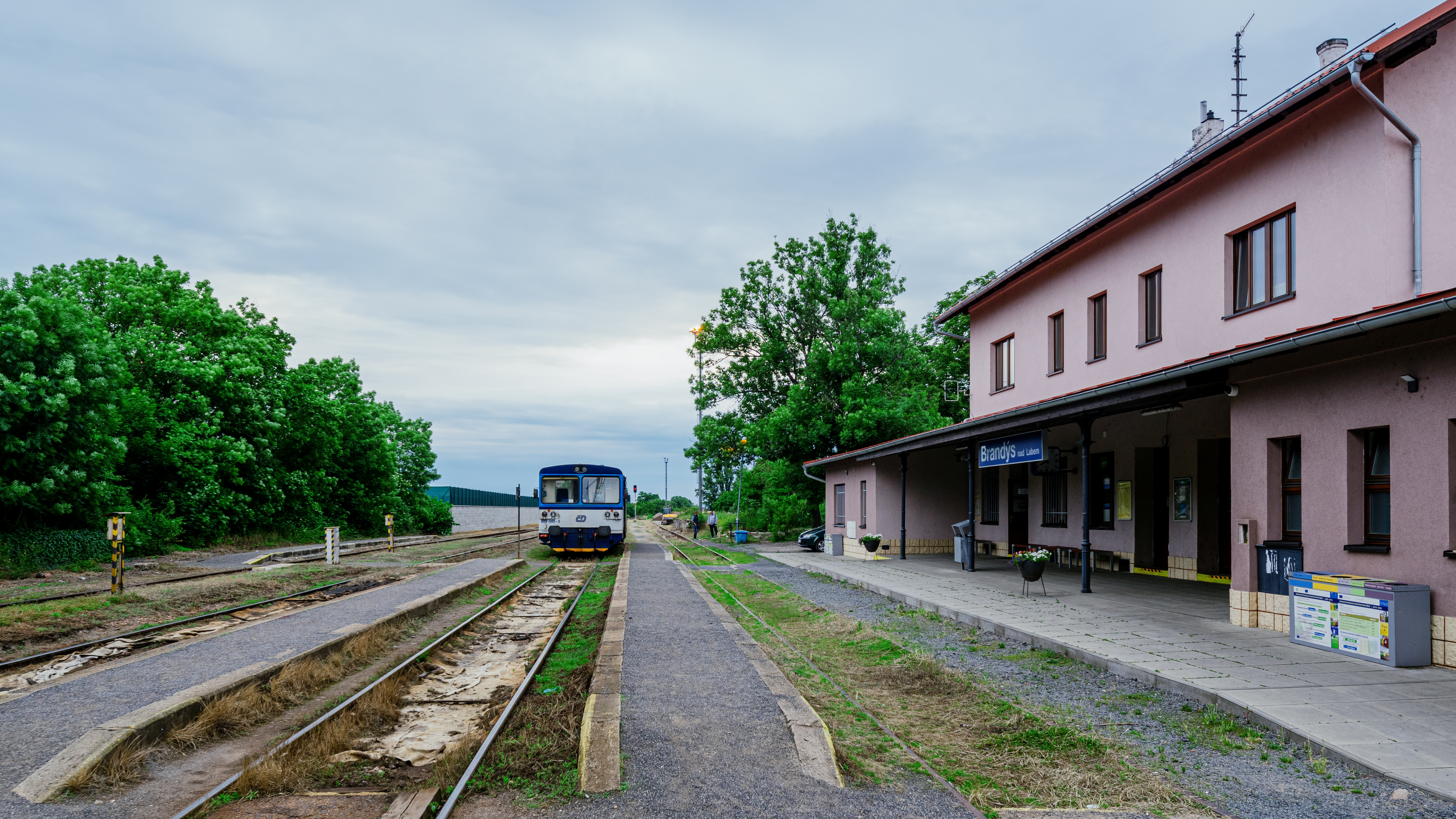 Train station Brandýs nad Labem with station building, platforms and ČD Class 810 diesel motor coach waiting for departure. The photo shows view in direction to Neratovice.